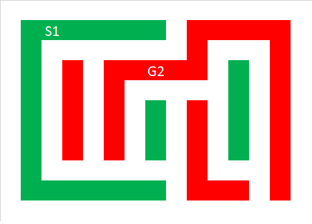 After a first cut spacer pattern (S1, green) is generated, a second spacer process, with spacer as dielectric, can form remaining metal as gap patterns (red, G2), which can be cut or trimmed again. Reference